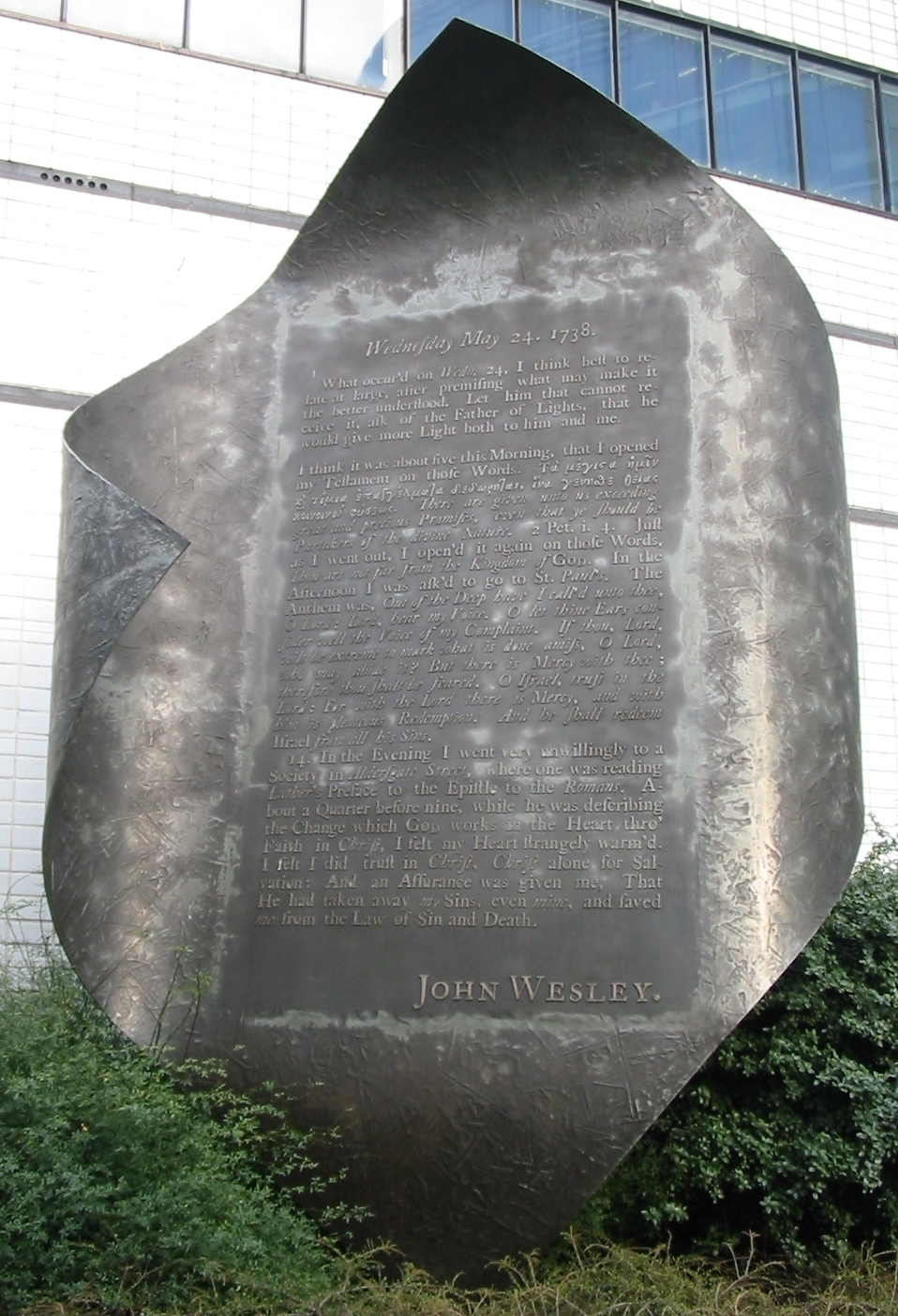 London